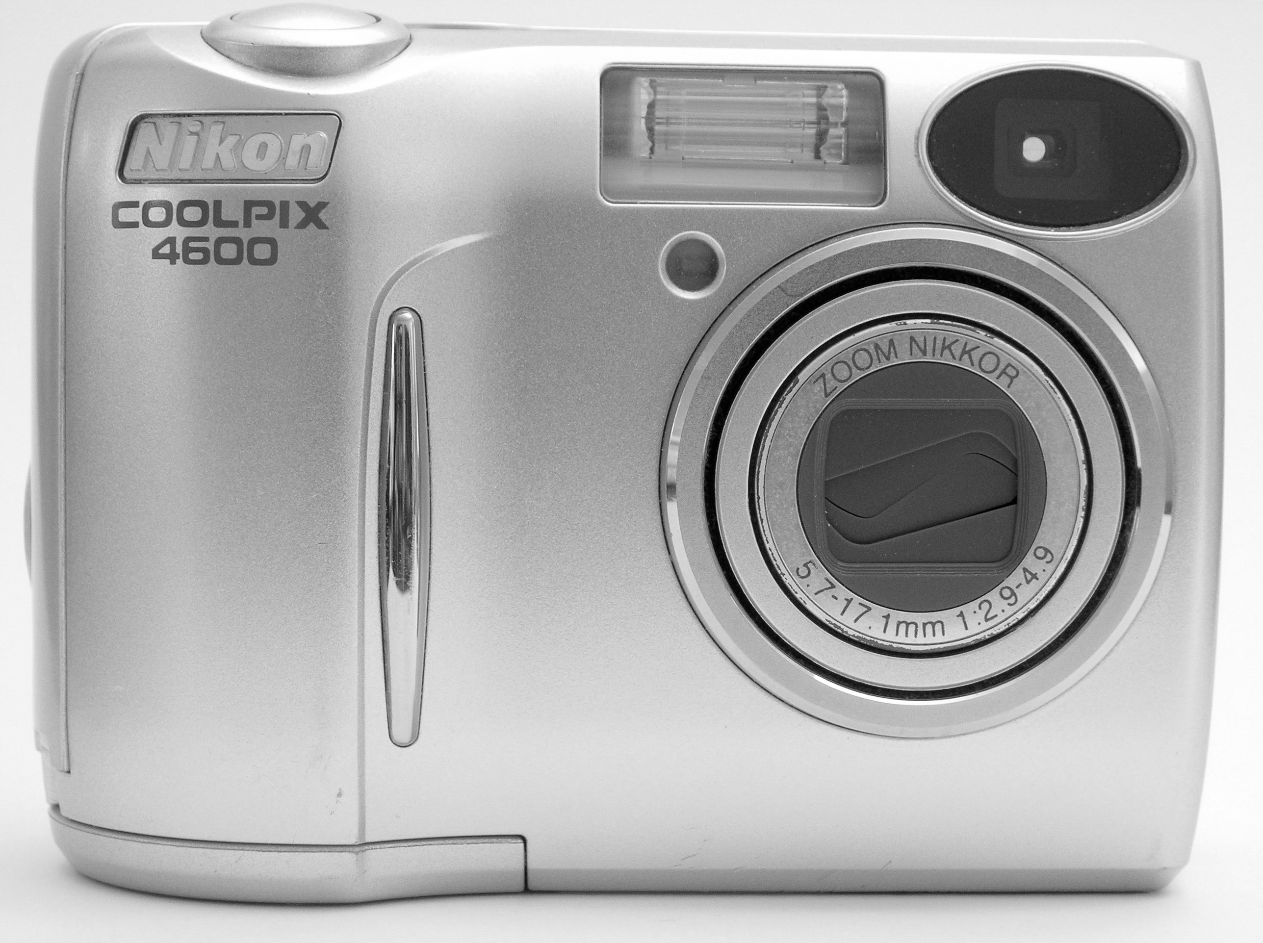 A Nikon Coolpix 4600 digital camera (front view)